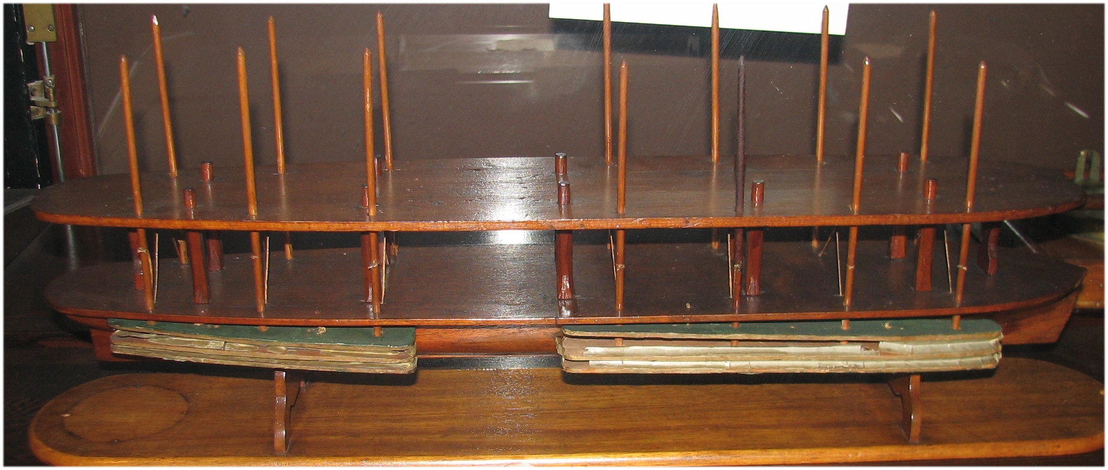 Patent Model of Abraham Lincoln's Invention, never actually built